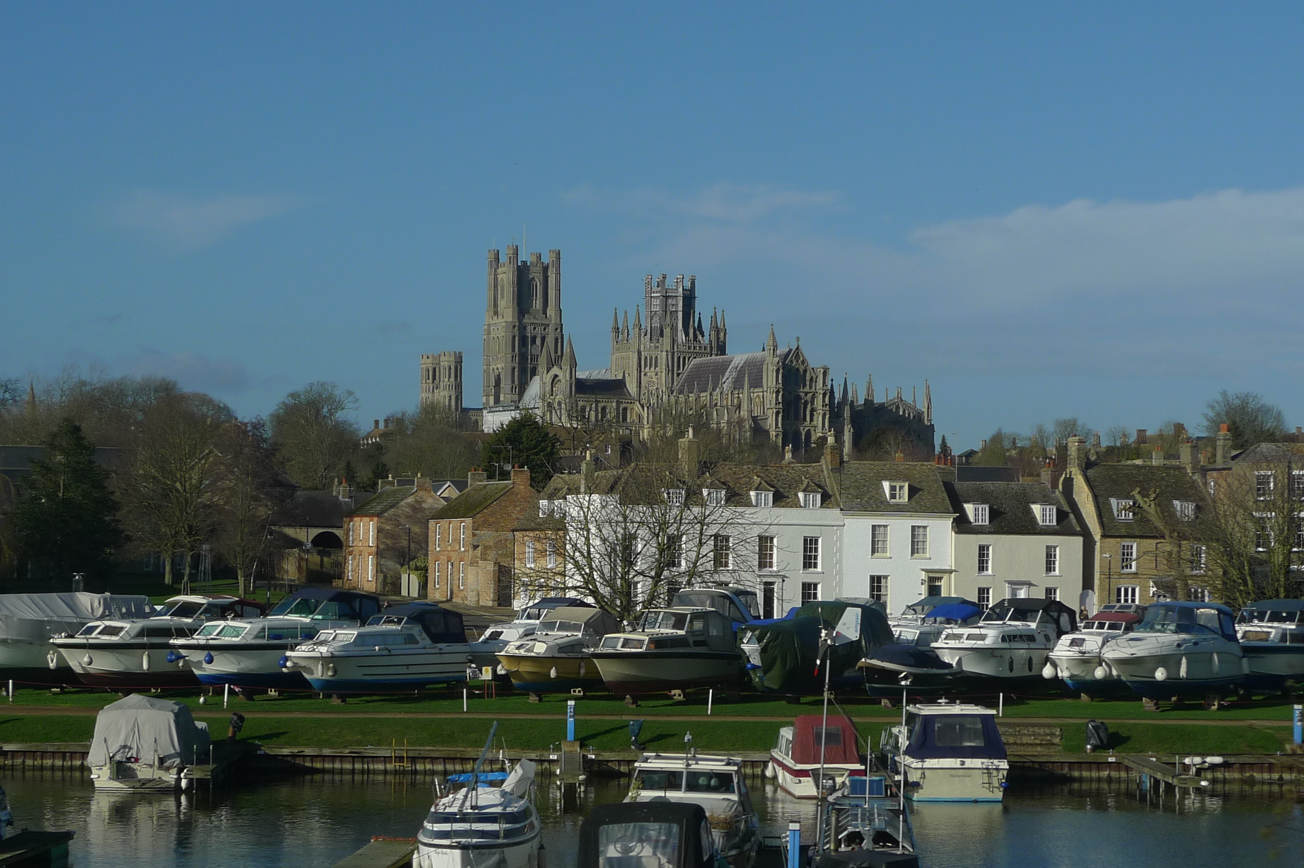 Ely Cathedral and the River Great Ouse, photographed from a train as it approached Ely station